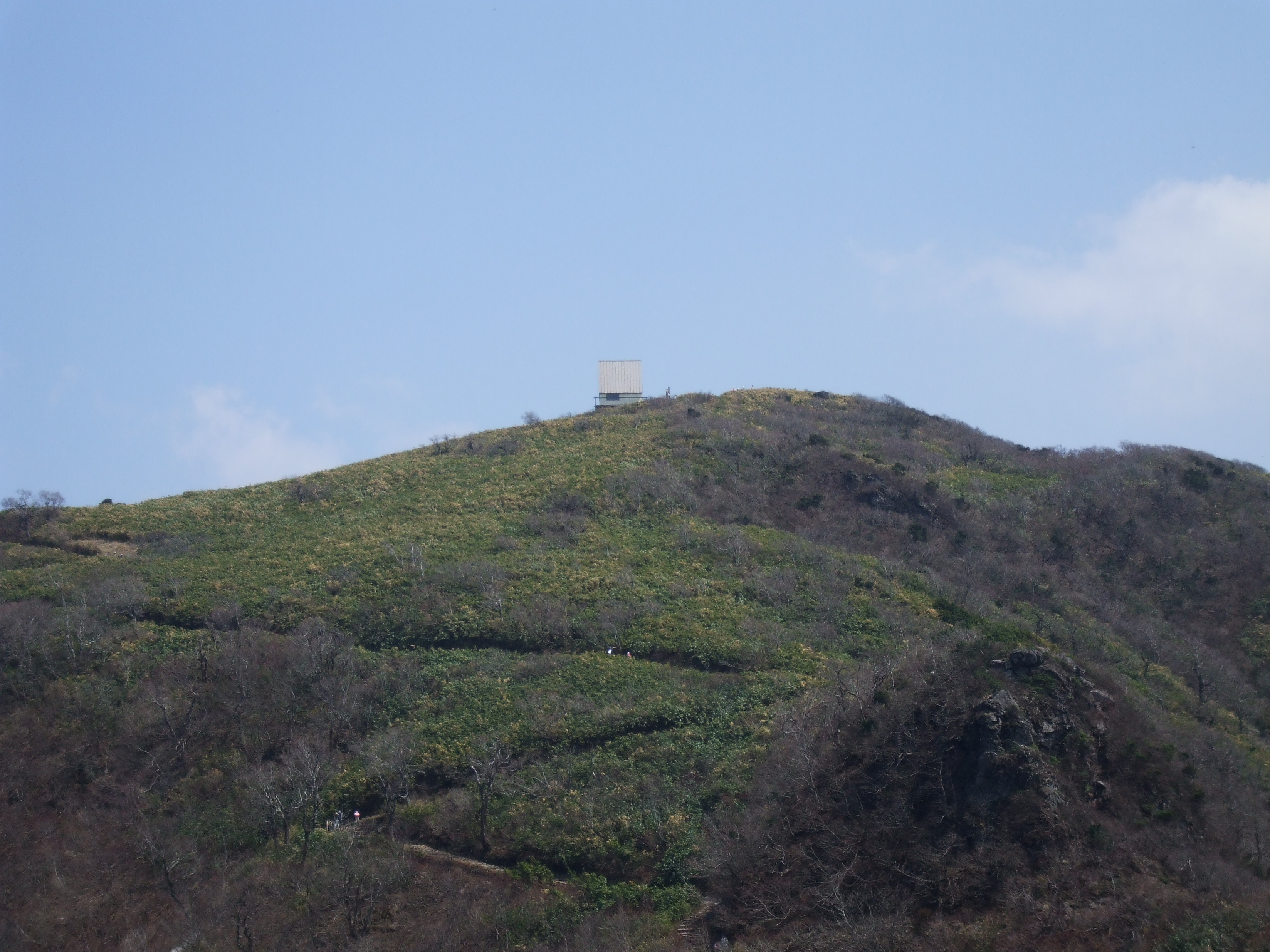 A View of Mount Hyono, Honshu, Japan.